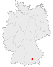 Location, Munich in Germany